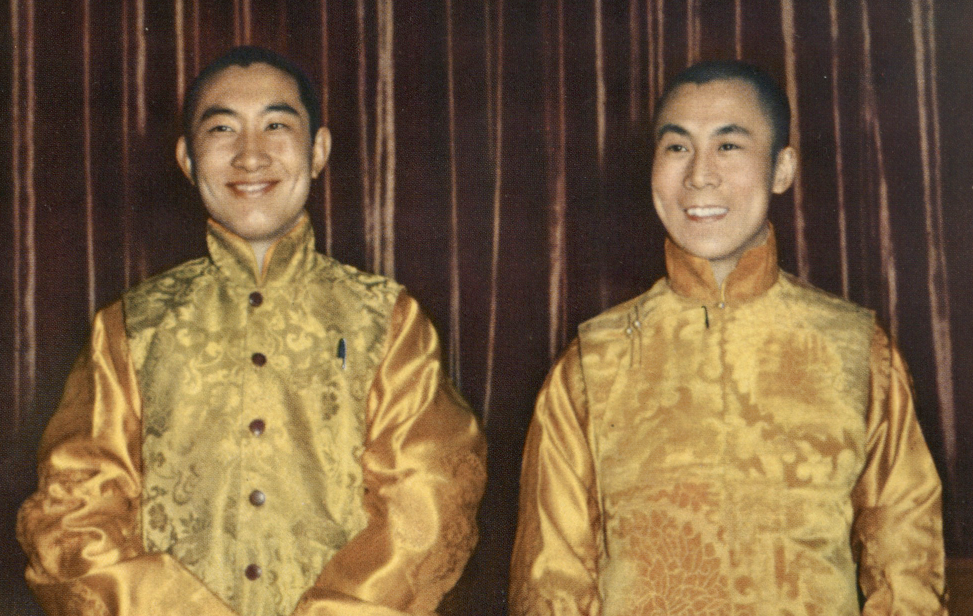 Dalai Lama and Panchen Lama, 1954 or 1955 when they were in Beijing and other cities in China.